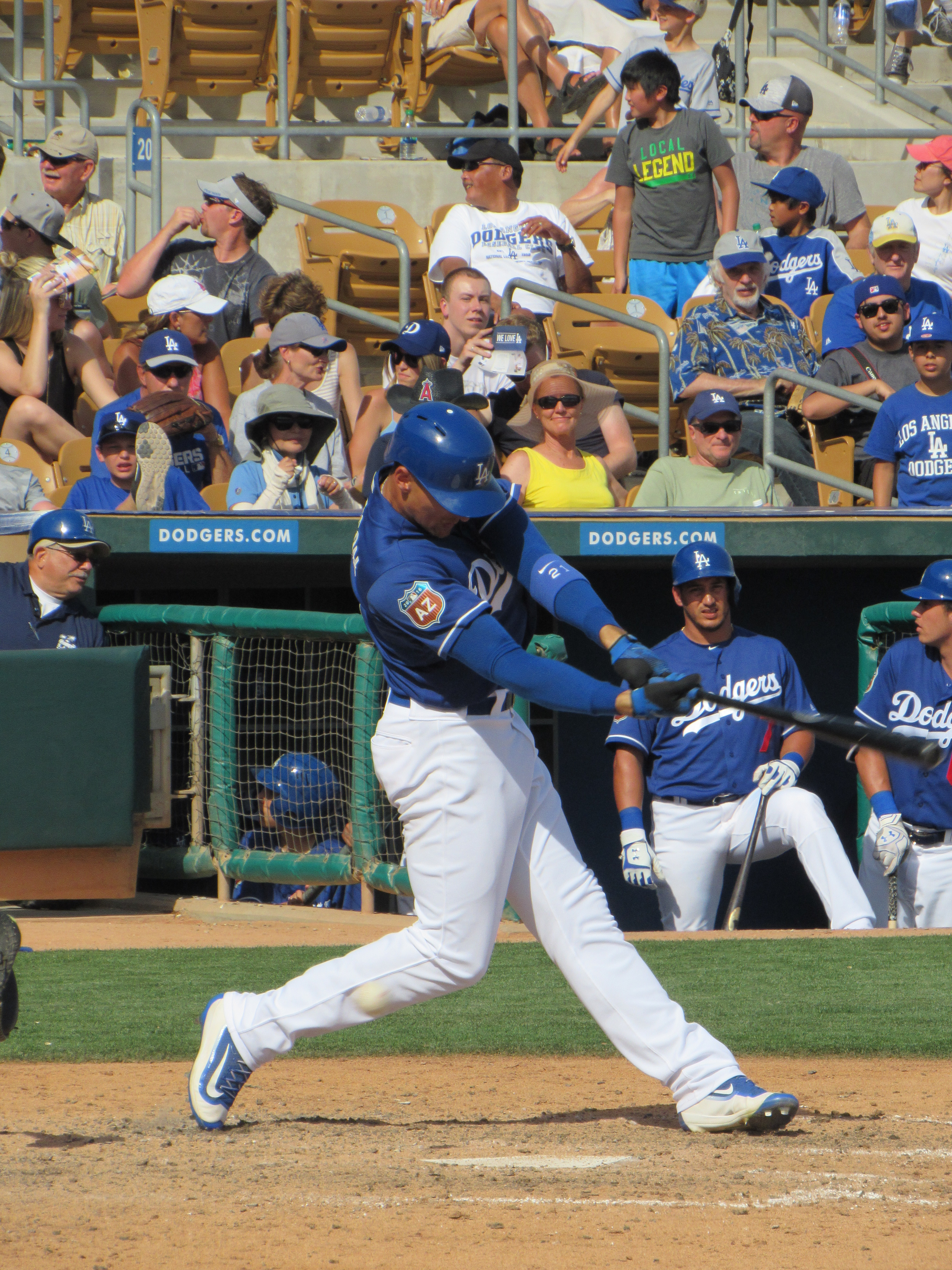 Thompson at bat 2016 Spring Training.